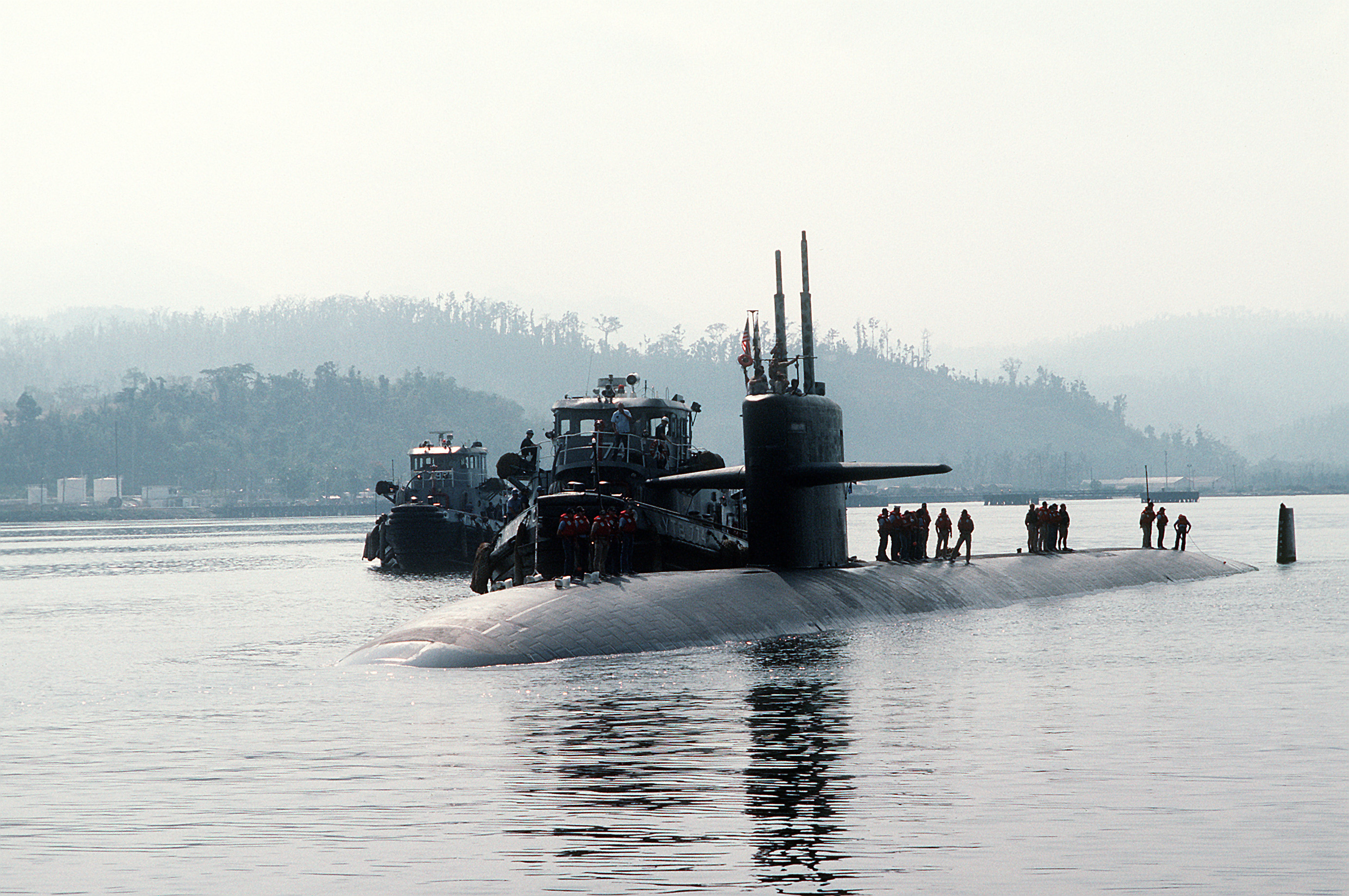 The nuclear-powered attack submarine USS INDIANAPOLIS (SSN-697) pulls into port, assisted by the large harbor tugs TAMAQUA (YTB-797) and NASHUA (YTB-774). Location: NAVAL STATION, SUBIC BAY, LUZON PHILIPPINES (PHL)